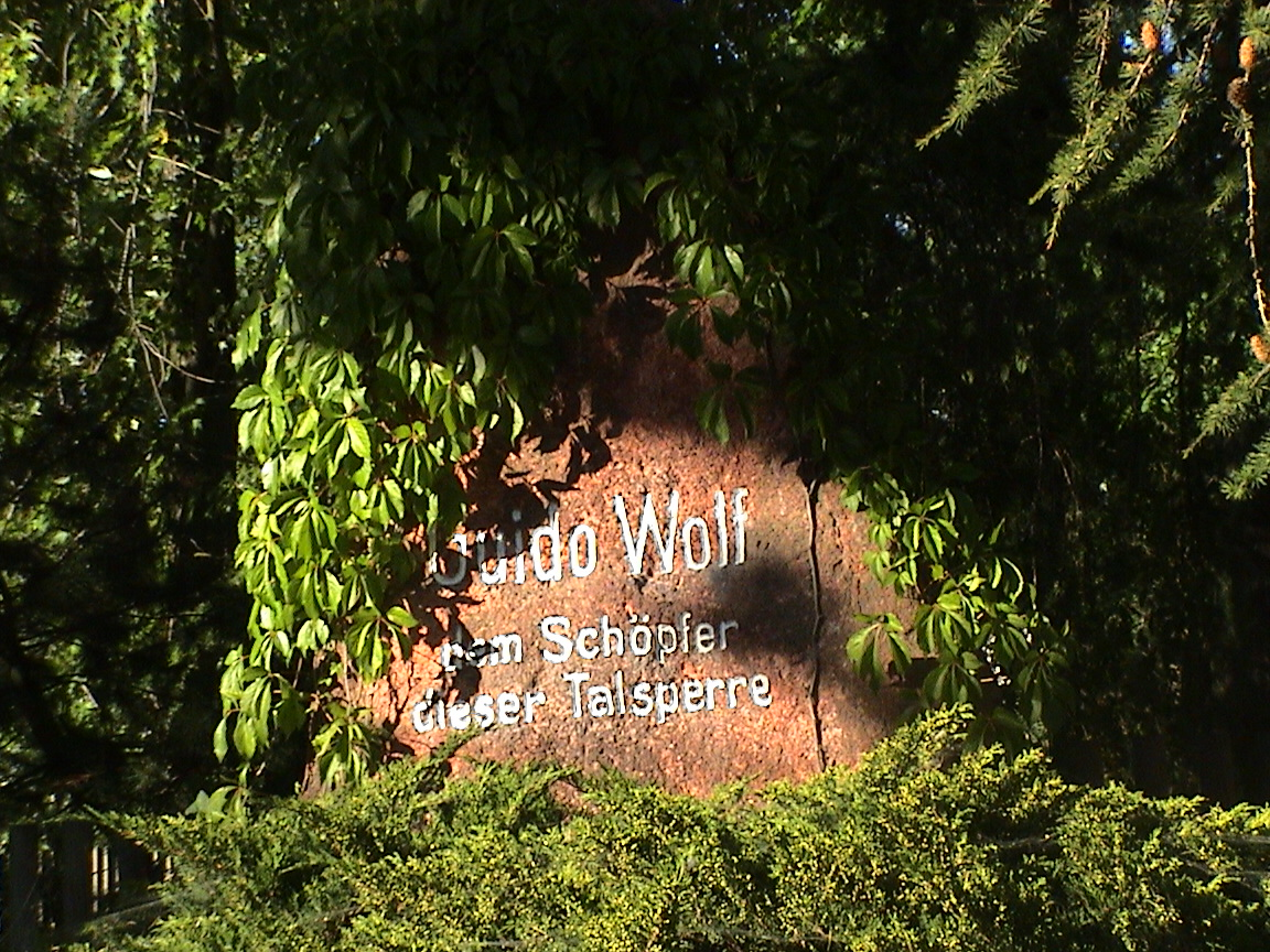 artificial lake "Koberbachtalsperre", memorial stone for the creator